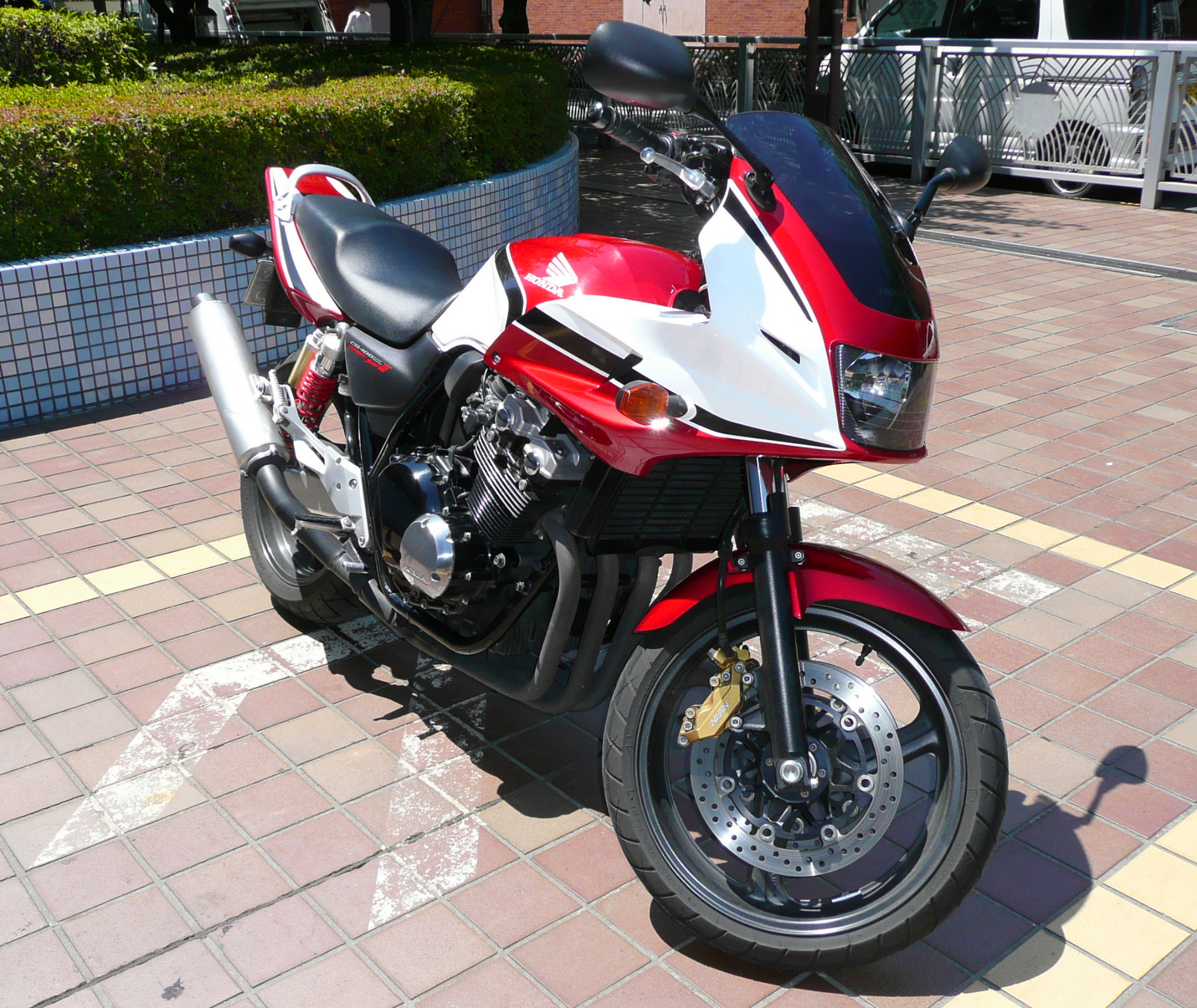 The front view of HONDA CB400 Super Bold'or